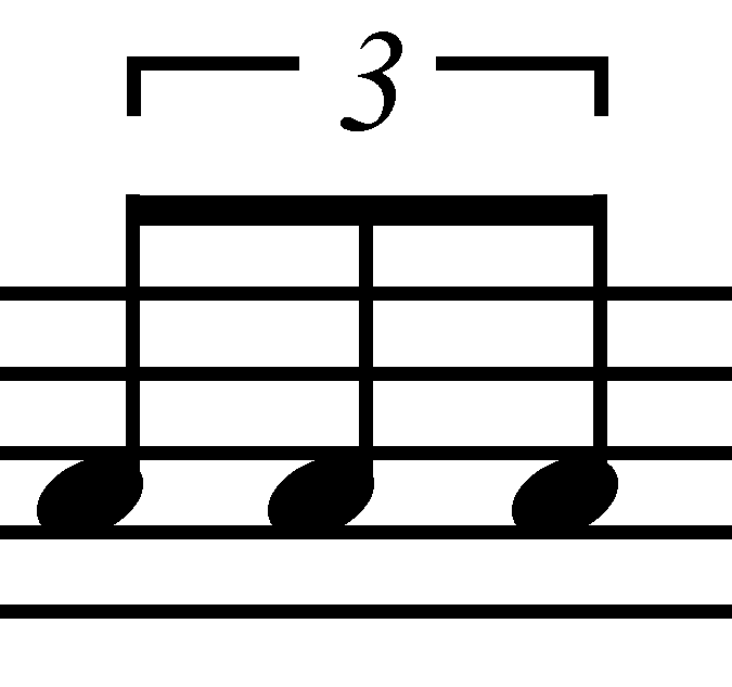 triplet out of three quarter-notes.